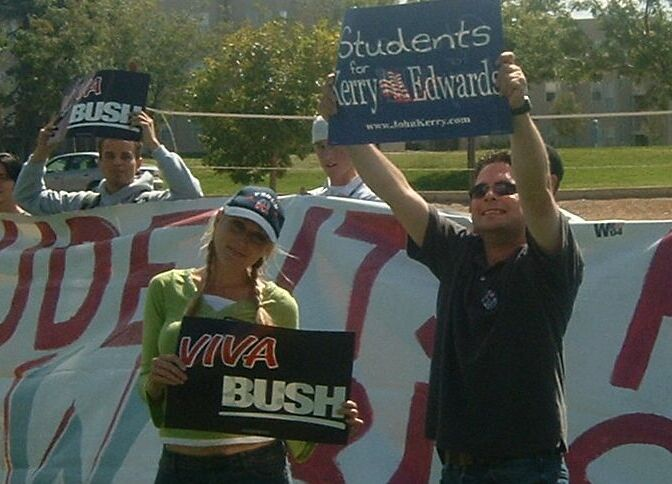 In a swing state both parties fight hard to win the state. Here in New Mexico in 2004.